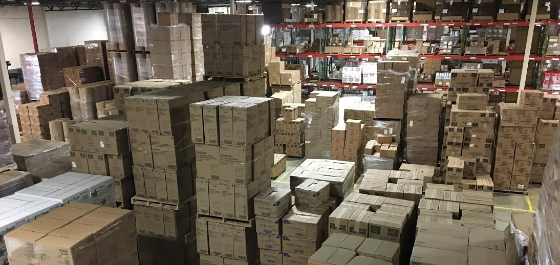 Photo of a SupplyWorks distribution center